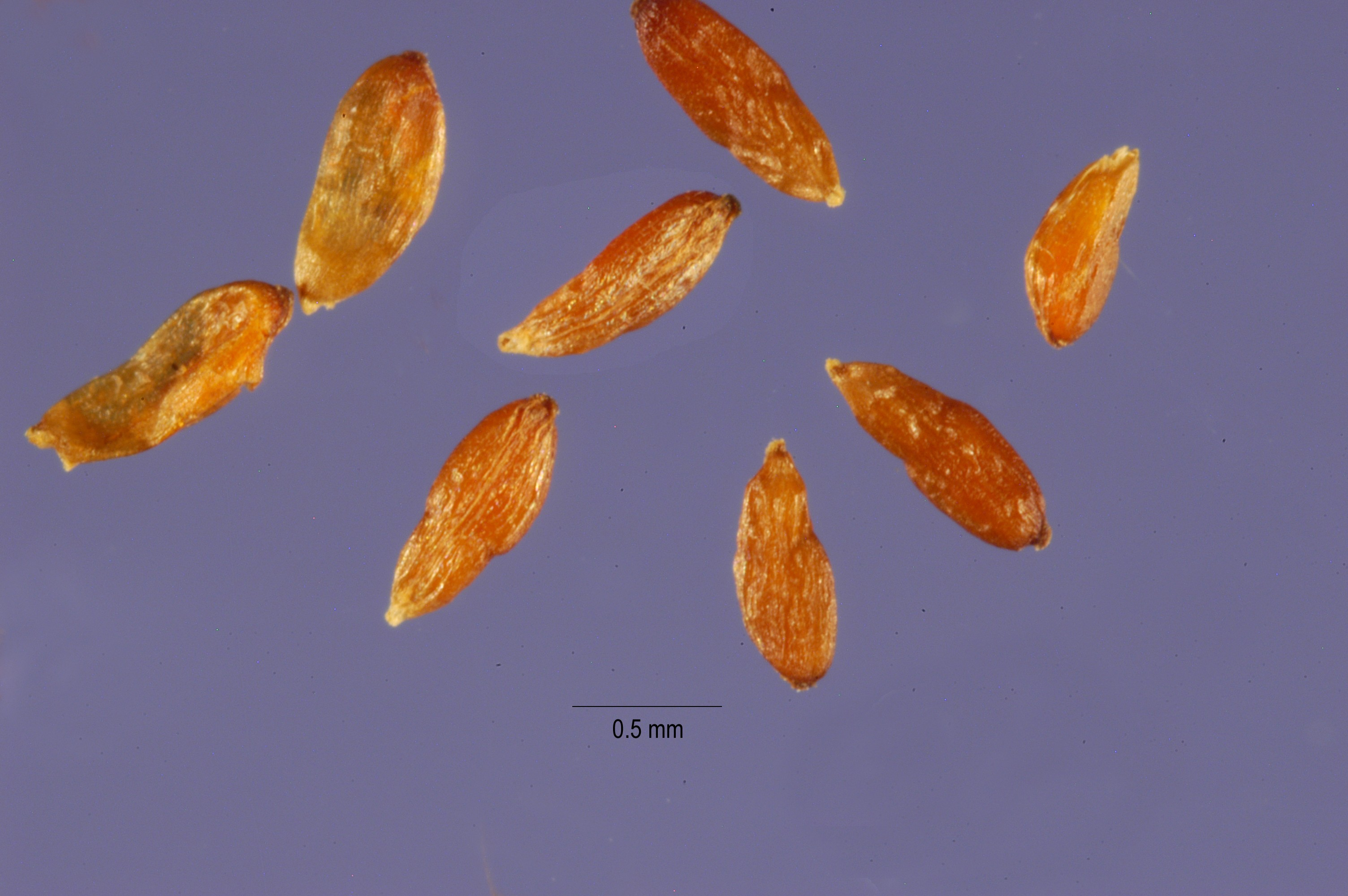 Chamerion angustifolium ssp. angustifolium seeds